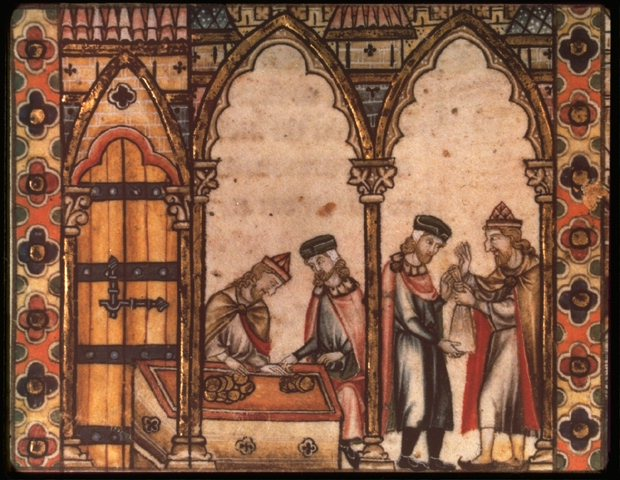 Illuminated manuscript of Jewish money lenders in France at the time of Louis XI